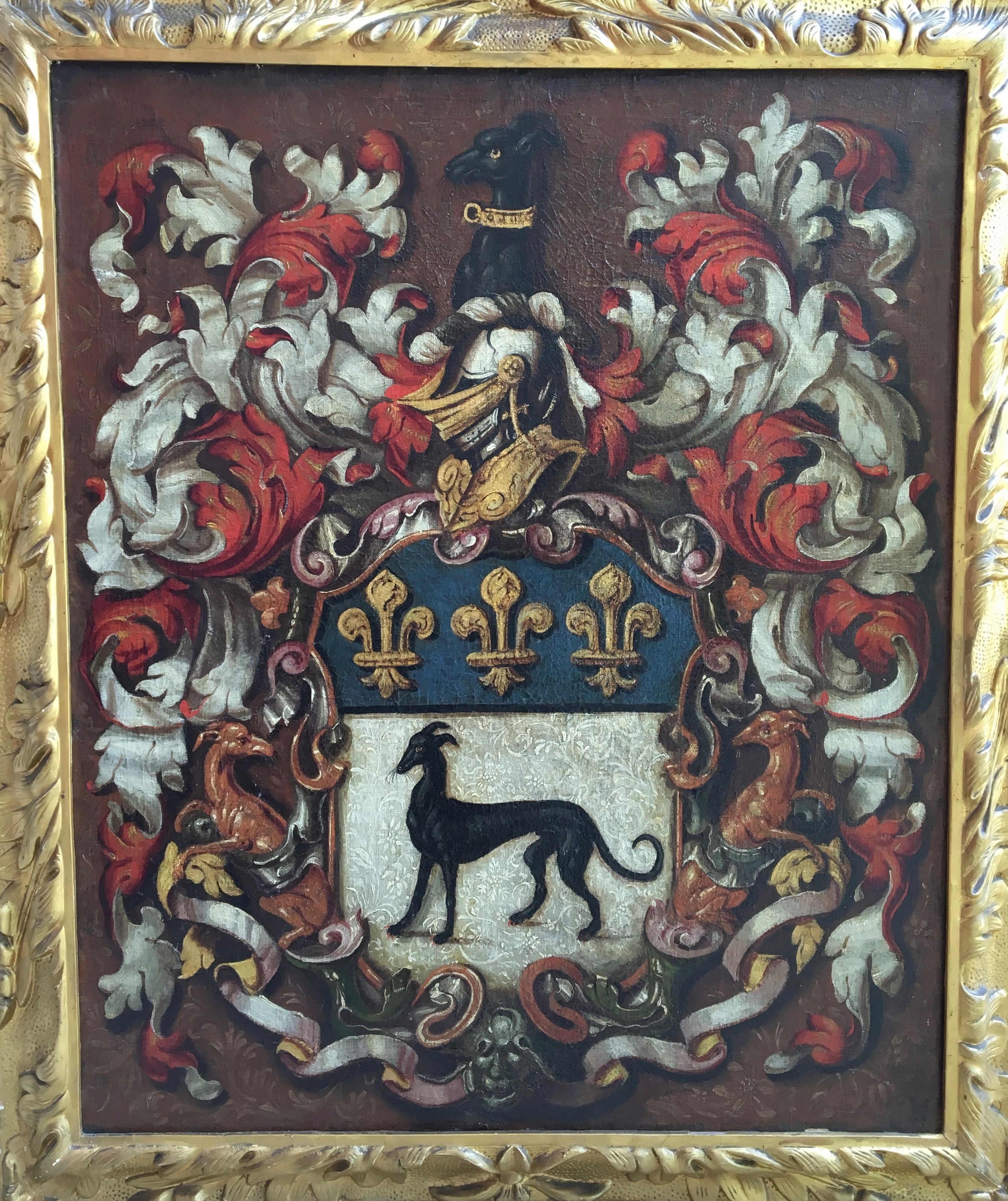 Oil on Canvas, Halford Coat of Arms